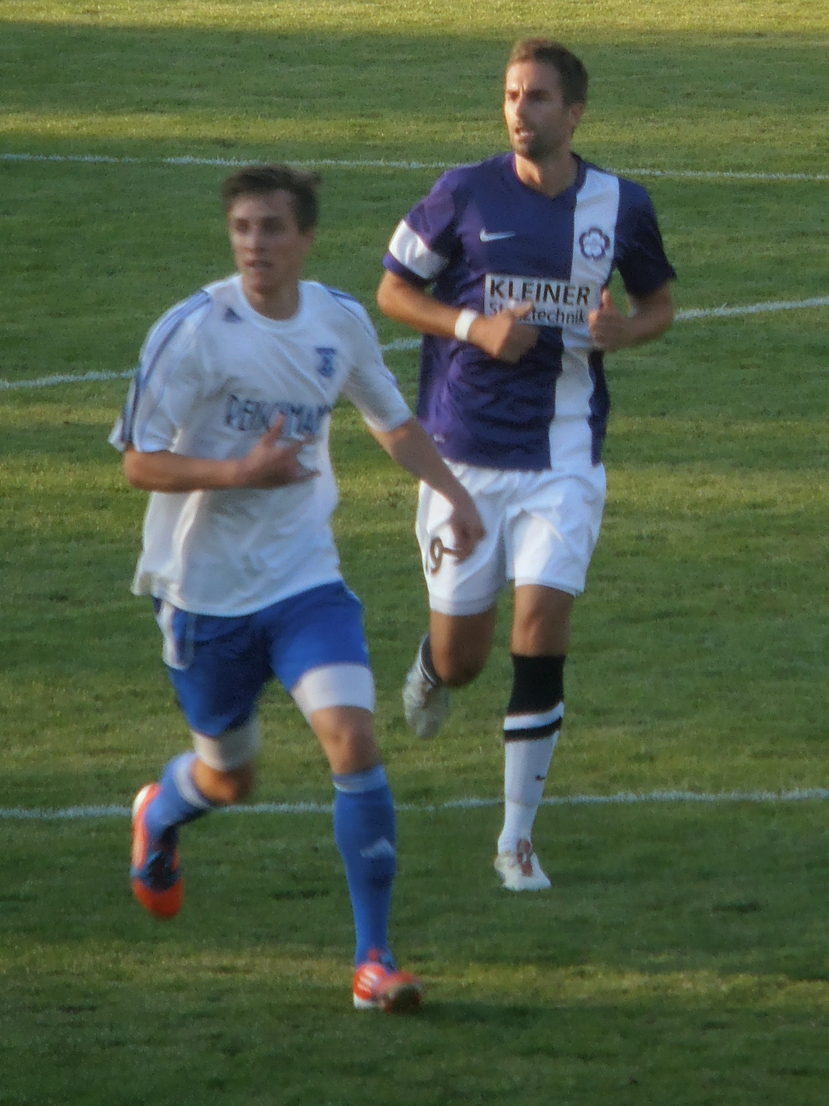 Sebastian Hofmann at Oberliga amtch of FC Nöttingen against FV Ravensburg